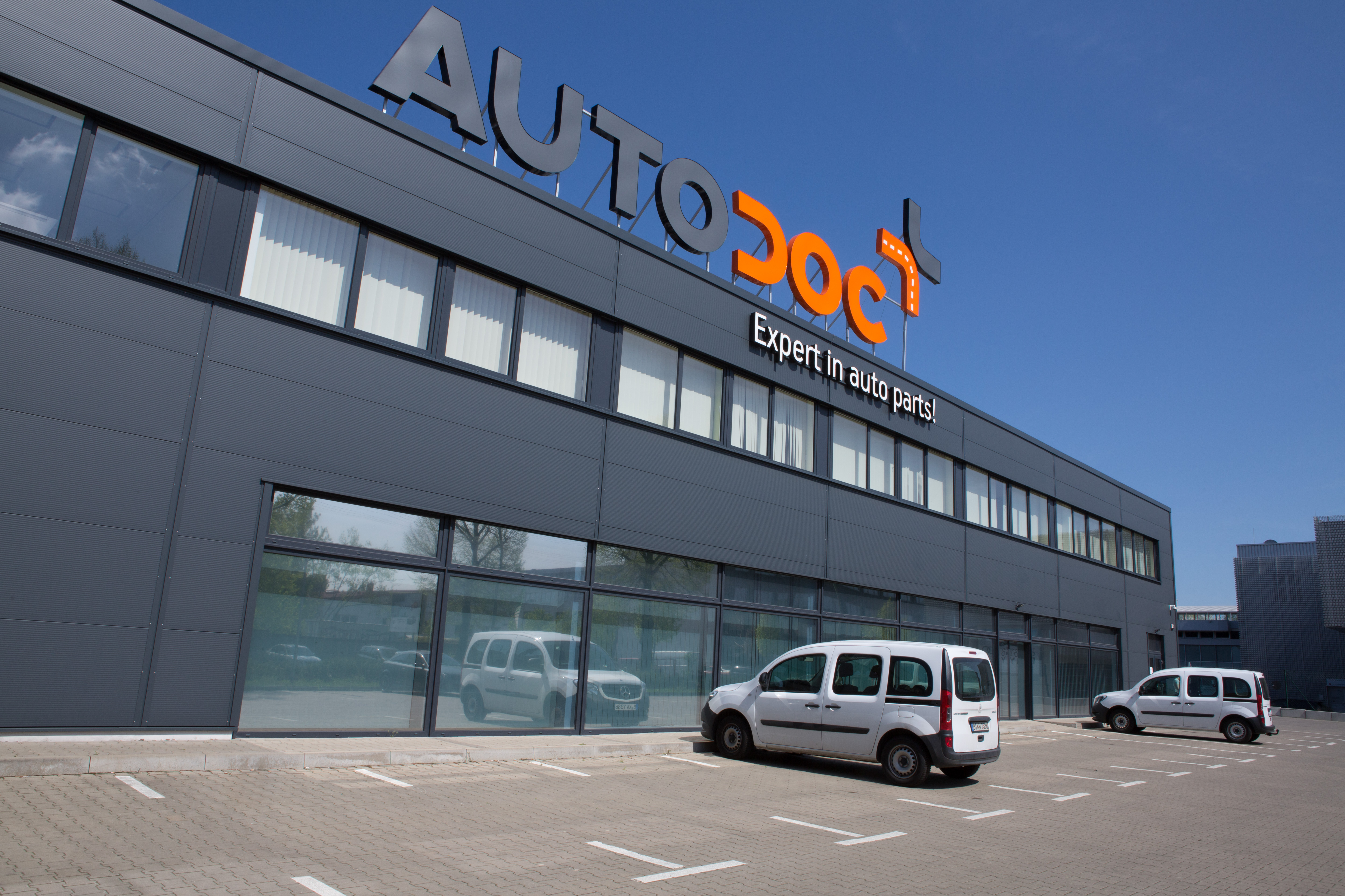 Headquarters of Autodoc